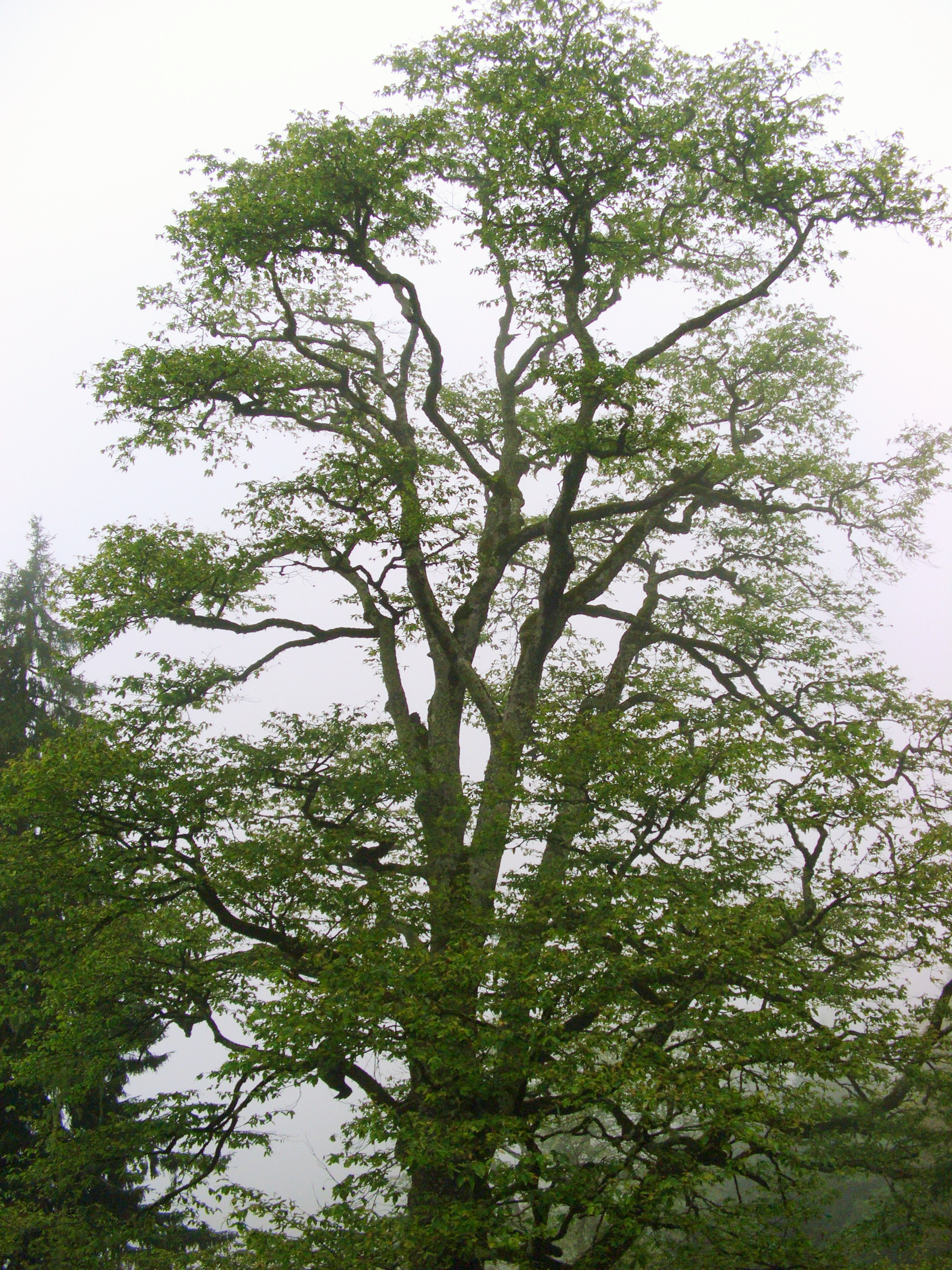 An old Carpinus betulus tree (Gürgen in Turkish). It is a typical plant of Black Sea forests in Turkey. Photo was taken in Fırtına Vadisi, Ayder in Rize Province of Turkey.